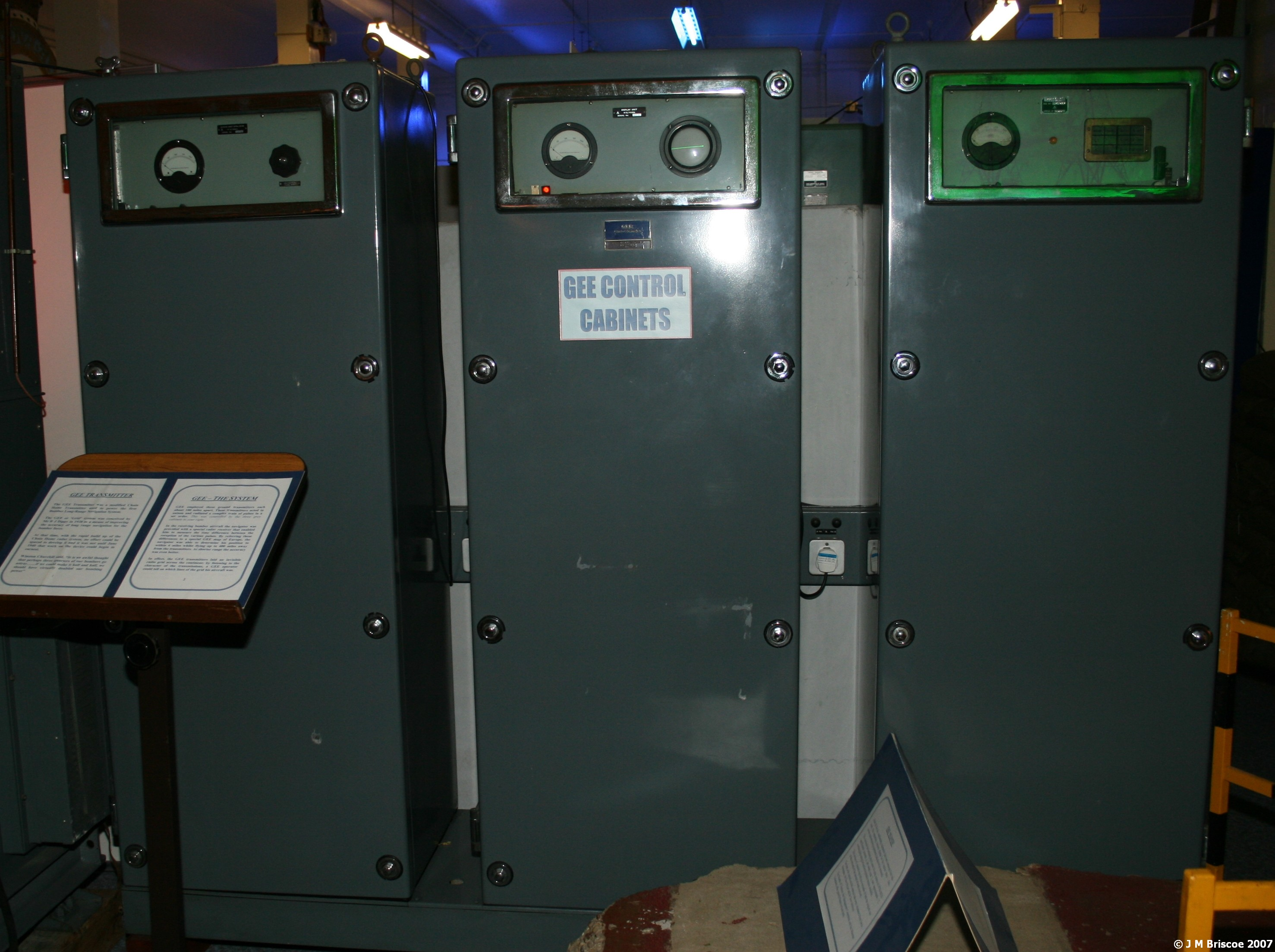 GEE control bays At RAF Air Defence Museum